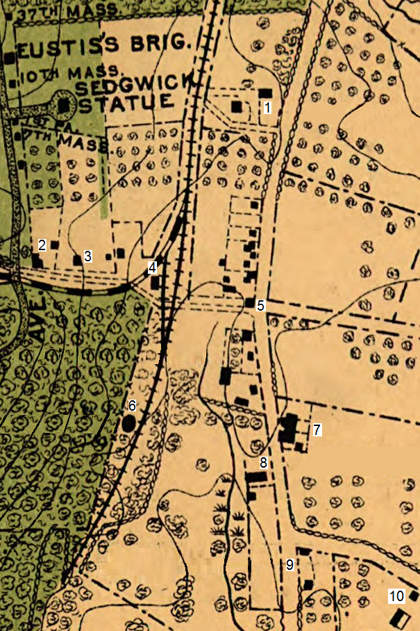 Round Top is on the east side of the Gettysburg Battlefield (green). By 1916, the community had a Round Top Station (4) siding of the Round Top Branch that connected to the Gettysburg Electric Railway (dashed), which had been connected to the steamtrain railroad after 1904. Labeled on the 1916 map were "P. D. Swisher" (1), "M. L. Stonestreet" (7), "J. McAllister (9), & "J. Group" (10). The Round Top School (3) and Plank Civil War hospital (8) remain, and former Round Top structures were the Round Top Museum/Hotel (2), Epley Blacksmith Shop (5), & "5 CORPS M.K.R." (6). On the west, the original alignment of Sykes Avenue ("AVE") extends south from Wheatfield Road to Little Round Top.